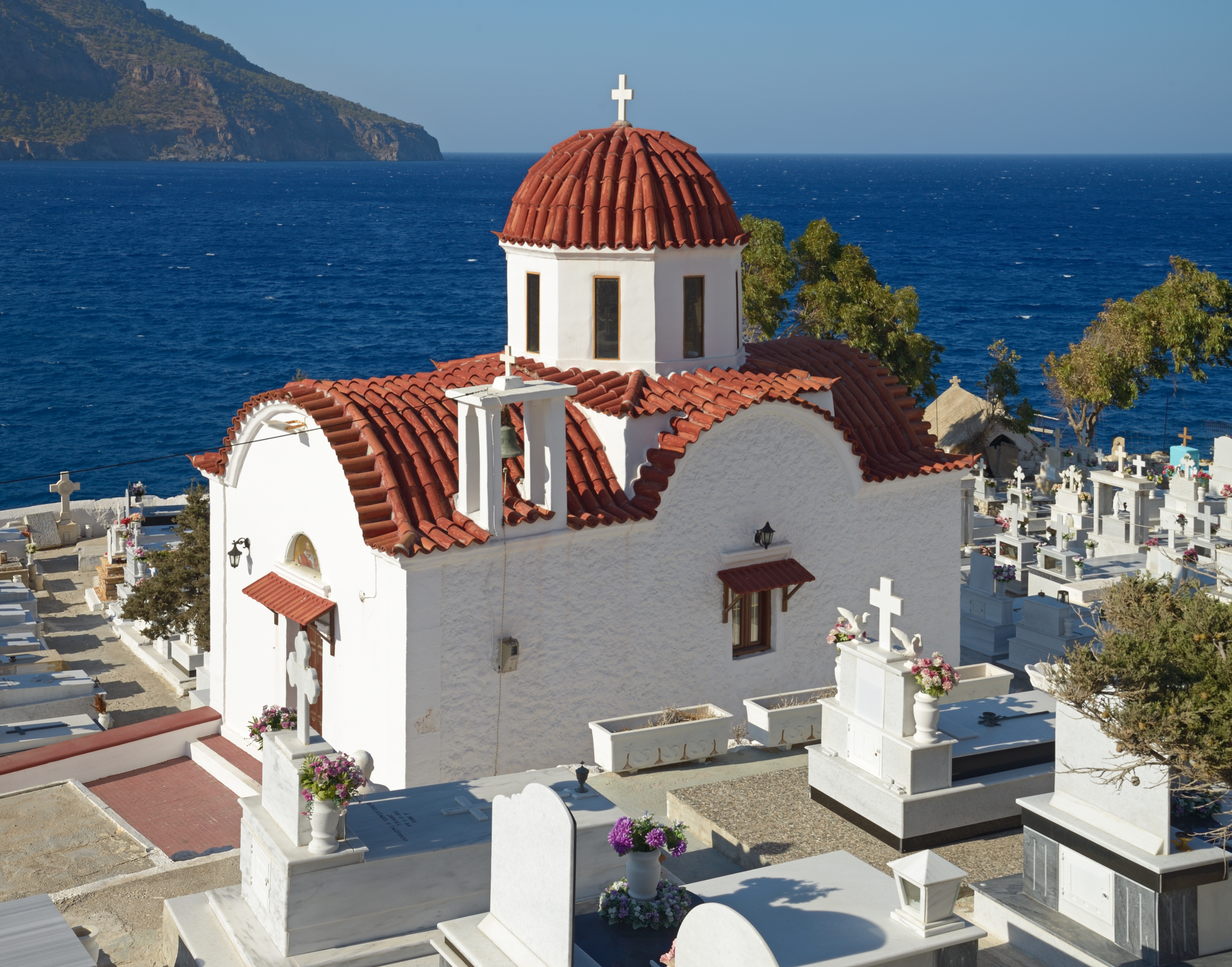 St. Nicholas Church in the Pigadia cemetery. Karpathos, Greece